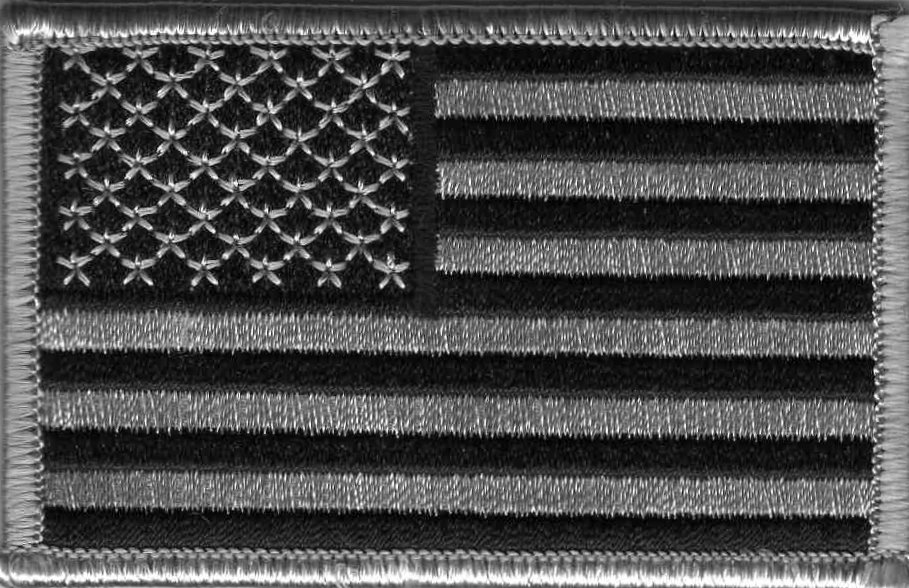 A subdued-color version of the flag of the United States, in the form of a patch intended to blend with urban camouflage.